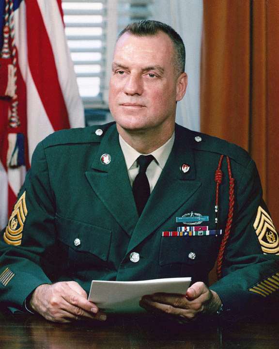 SMA William Woolridge from [1]